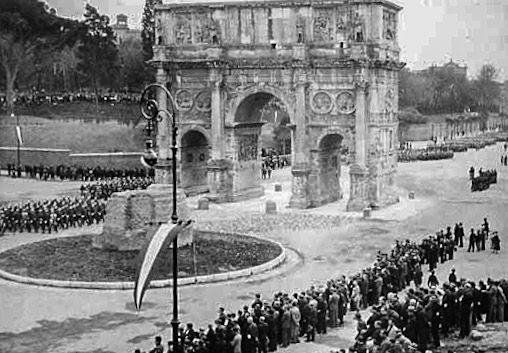 1933 picture depicting the Arch of Constantine